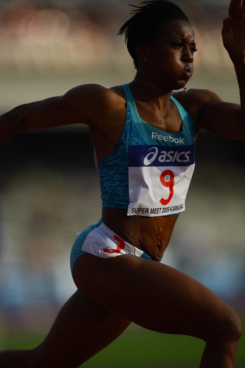 SEPTEMBER 23, 2009 - Track & Field : Women's 400m Hurdles during the Super Track and Field Meet at Todoroki Stadium on September 23, 2009 in Kanagawa, Japan. (Photo by Tsutomu Takasu)